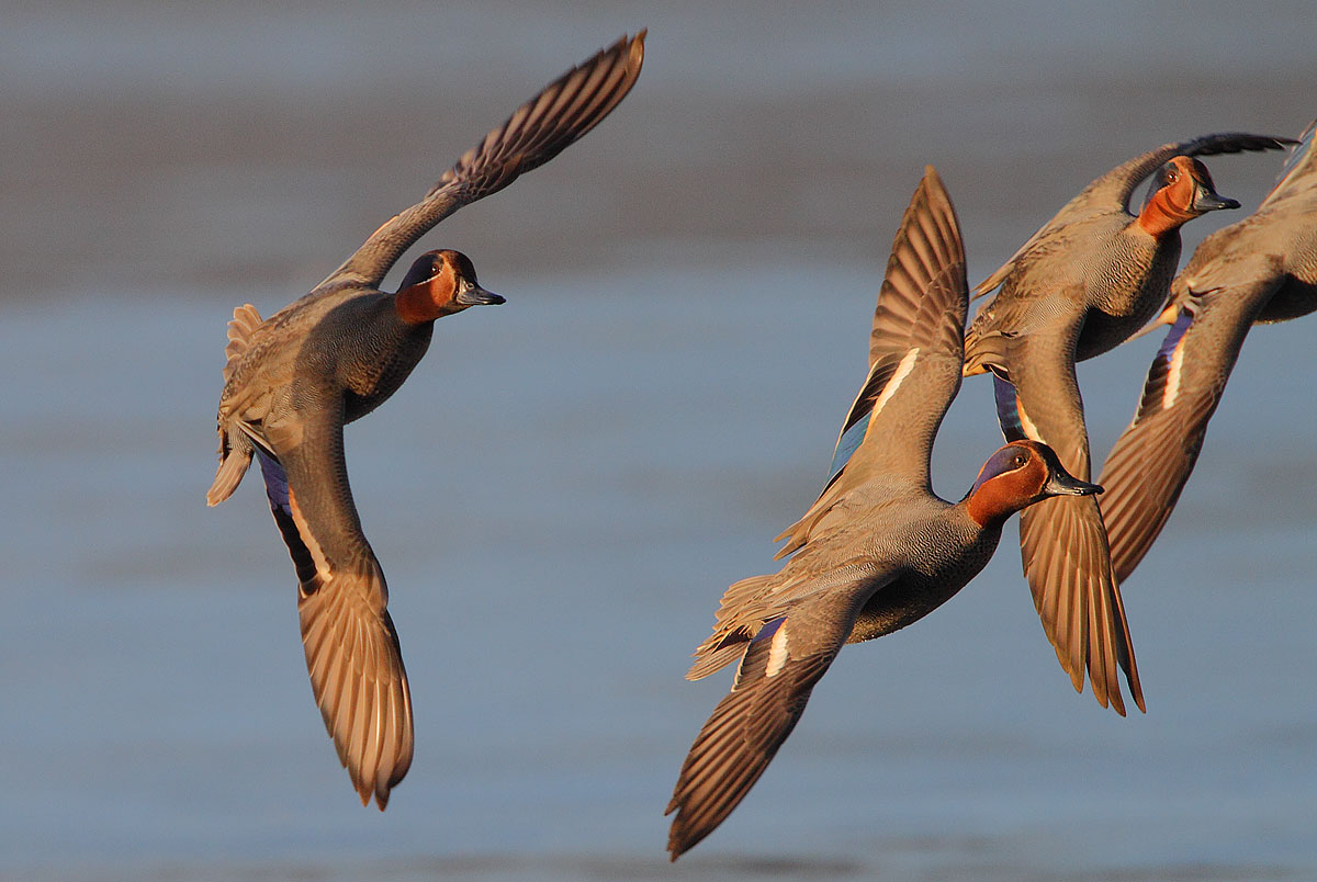 A flight of drake Teal over Loch of Kinnordy, Angus, Scotland.